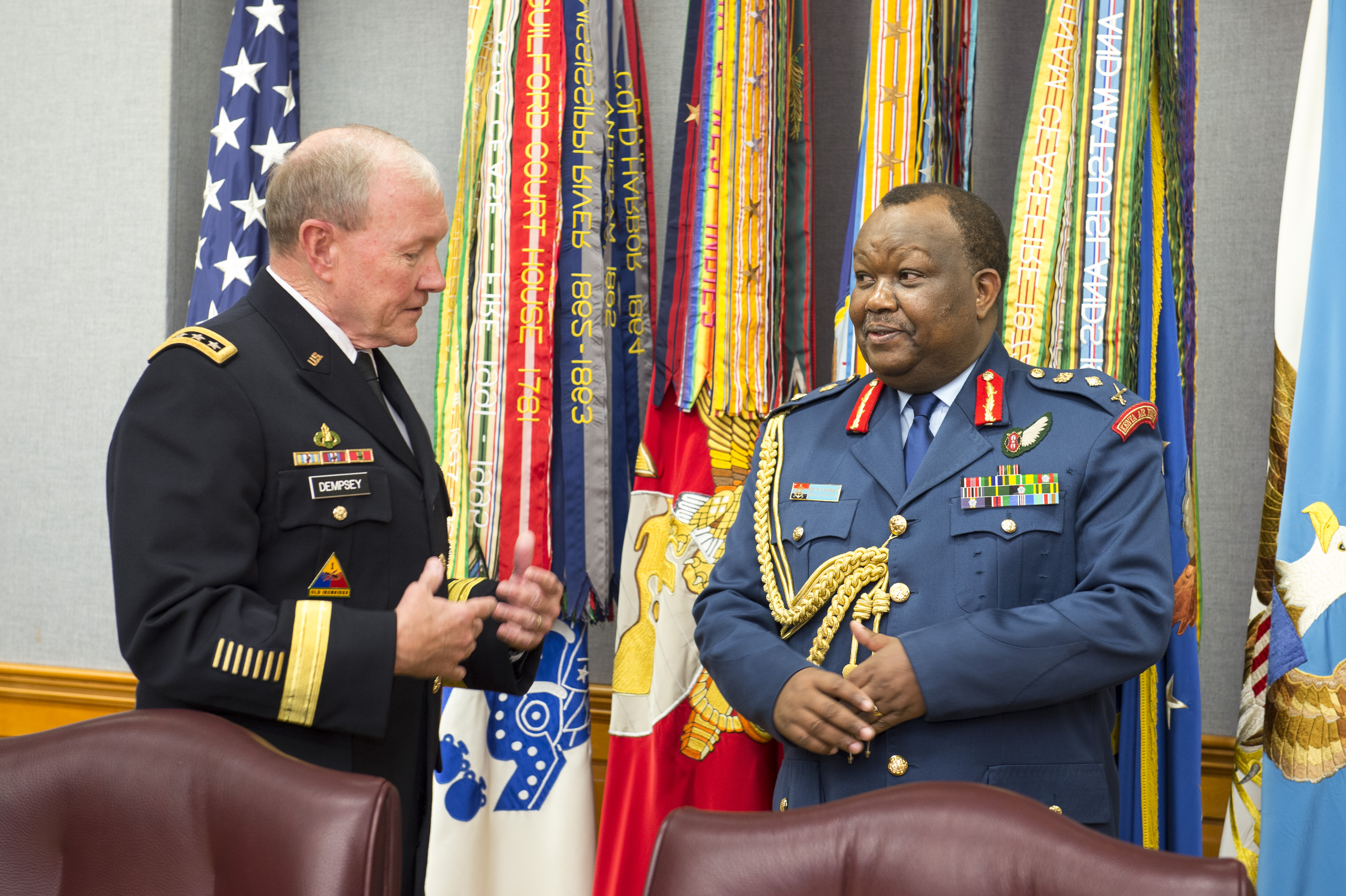 18th Chairman of the Joint Chiefs of Staff Army Gen. Martin E. Dempsey talks with Kenyan Chief of Defense Force Gen. Julius Waweru Karangi in "The Tank" at the Pentagon in Arlington, Va., July 15, 2014. DoD photo by Mass Communication Specialist 1st Class Daniel Hinton